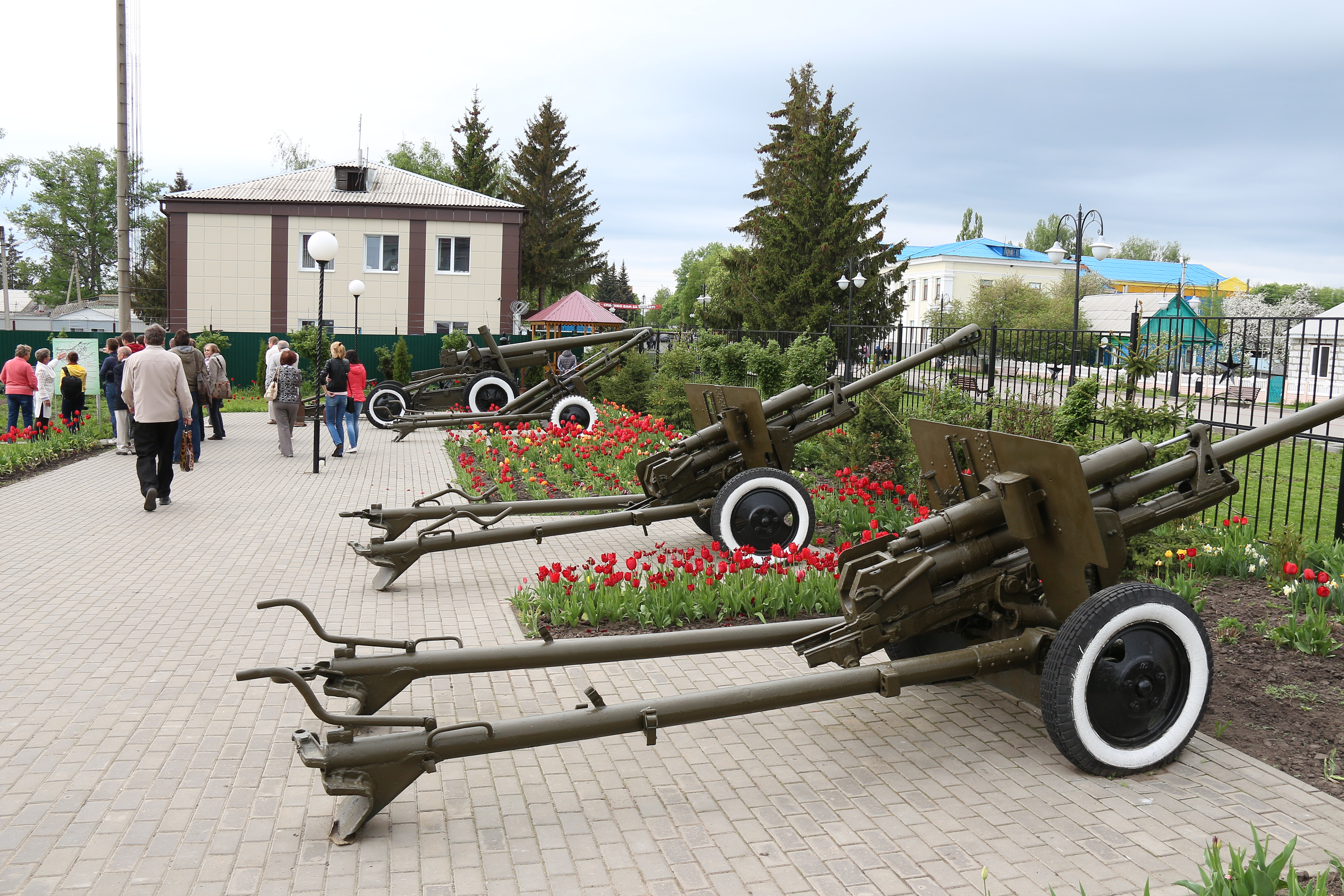 Ponyri city, museum